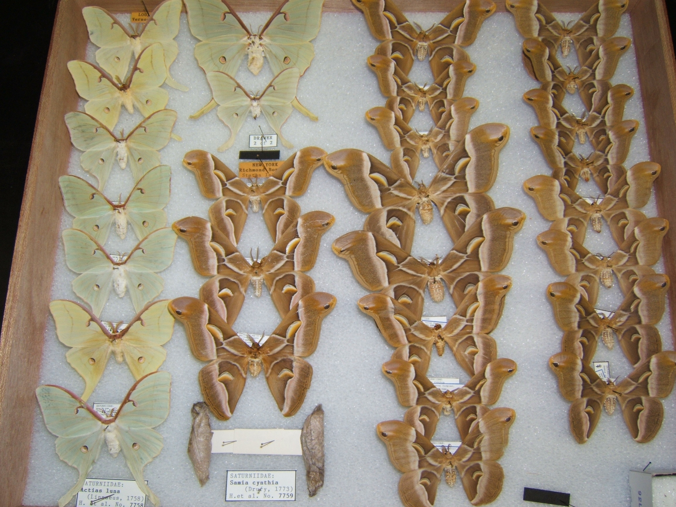 Samia cynthia adult variation taken by Shawn Hanrahan at the Texas A&M University Insect Collection in College Station, Texas. The left portion of the tray contains specimens of Actias luna.